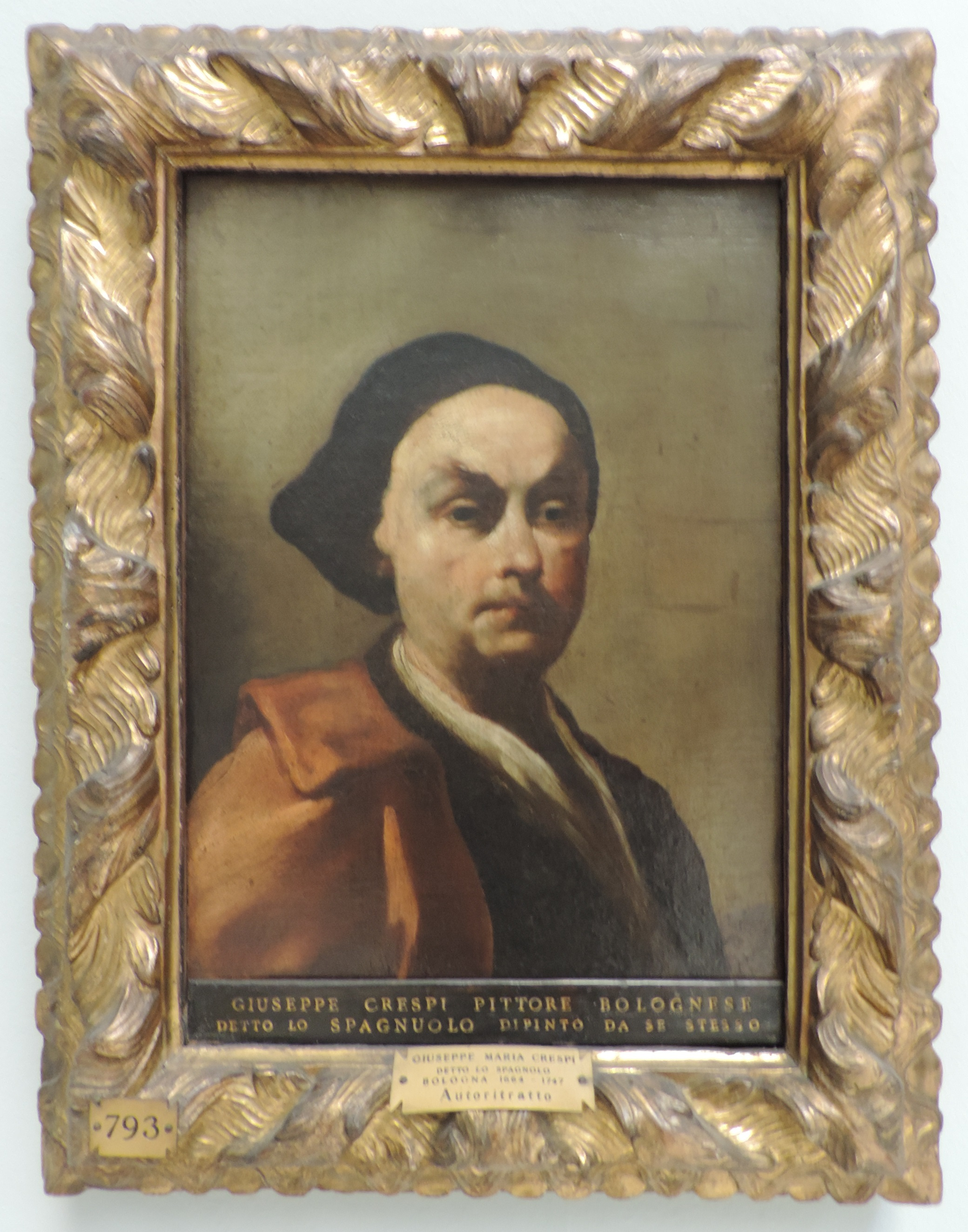 Self-portrait of the Italian painter Giuseppe Crespi (1665–1747). Exhibit of the Pinacoteca di Brera in Milan, Italy. Dated back to ca. 1725-1730 [2].